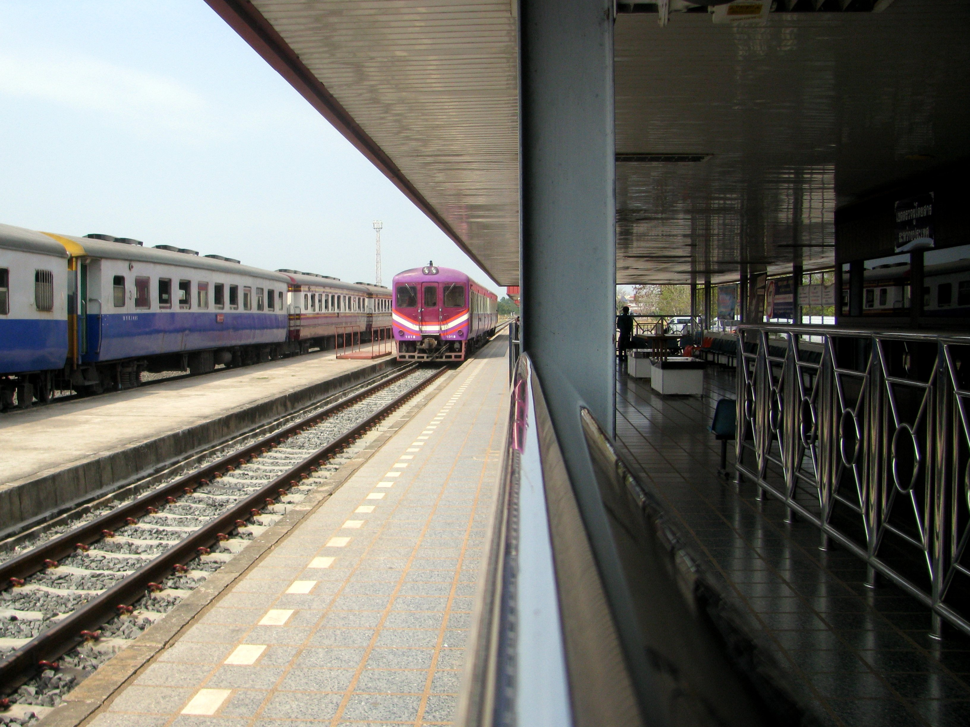 Around Vientiane